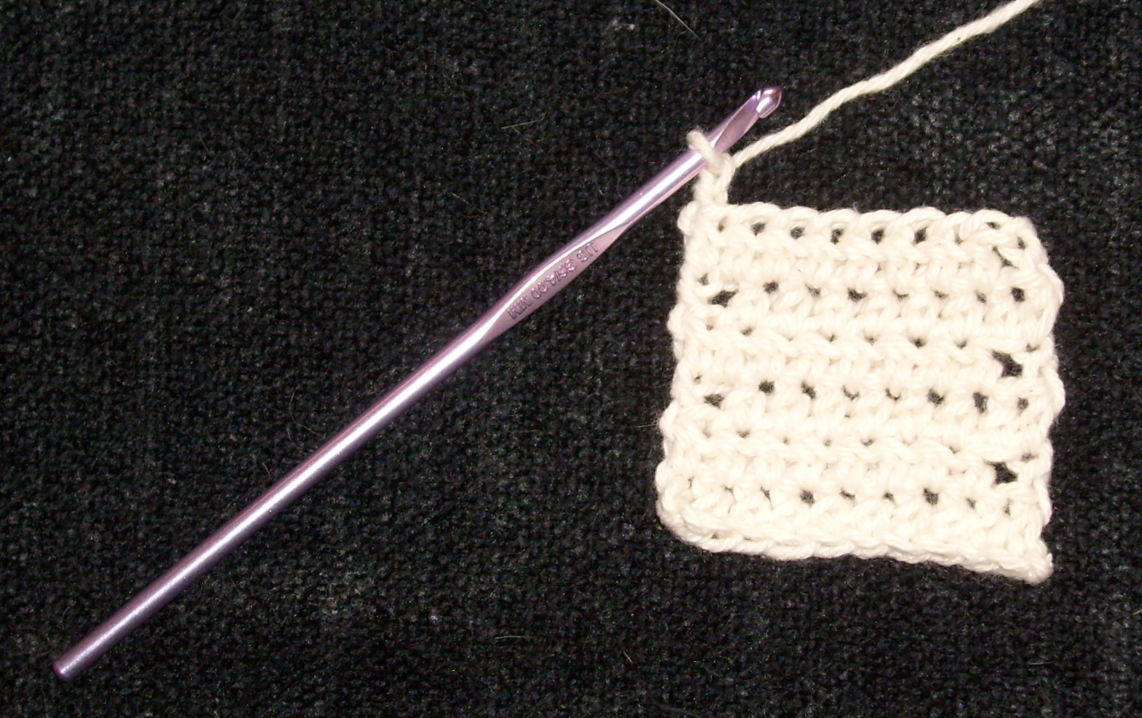 Demonstration of turning chain for half double crochet.